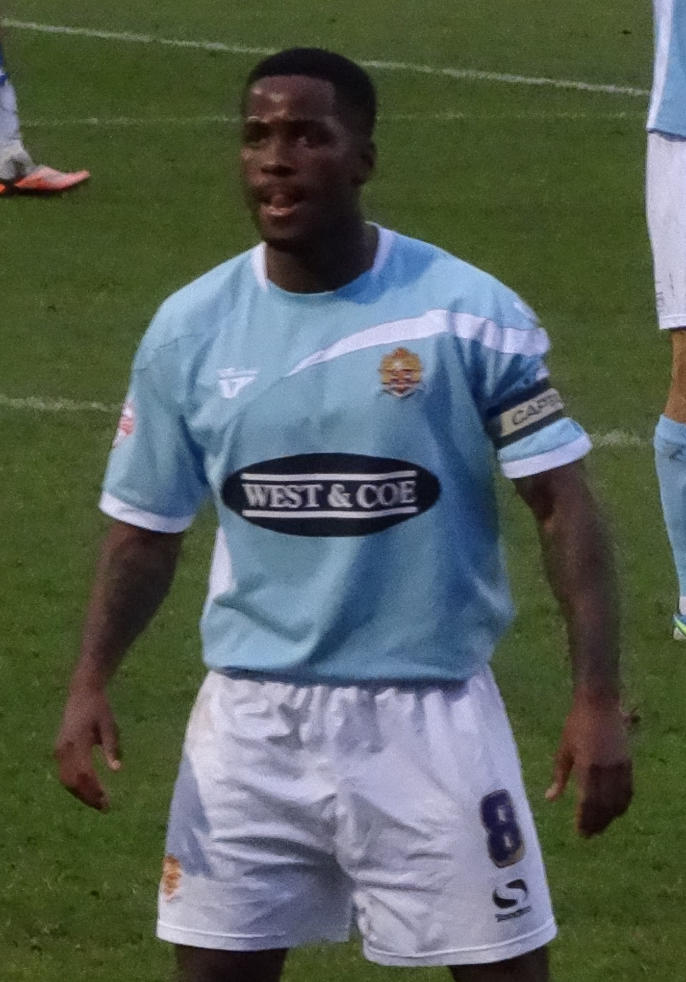 Abu Ogogo.